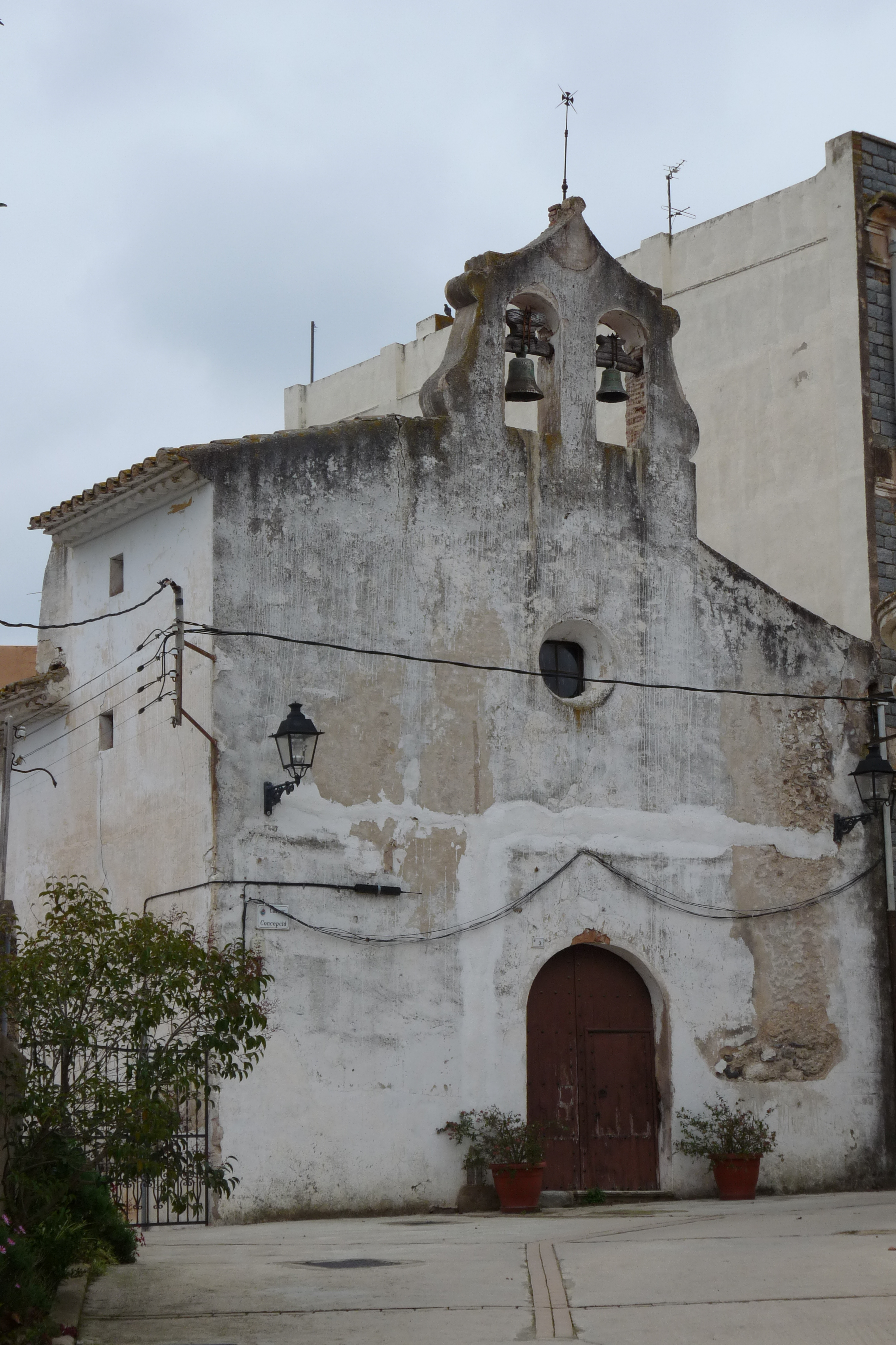 Church of Les Voltes,Riudecols.